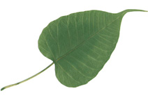 Leaf of the Ficus religiosa (Sanskrit: Pippala), a sacred tree in Hinduism and Buddhism